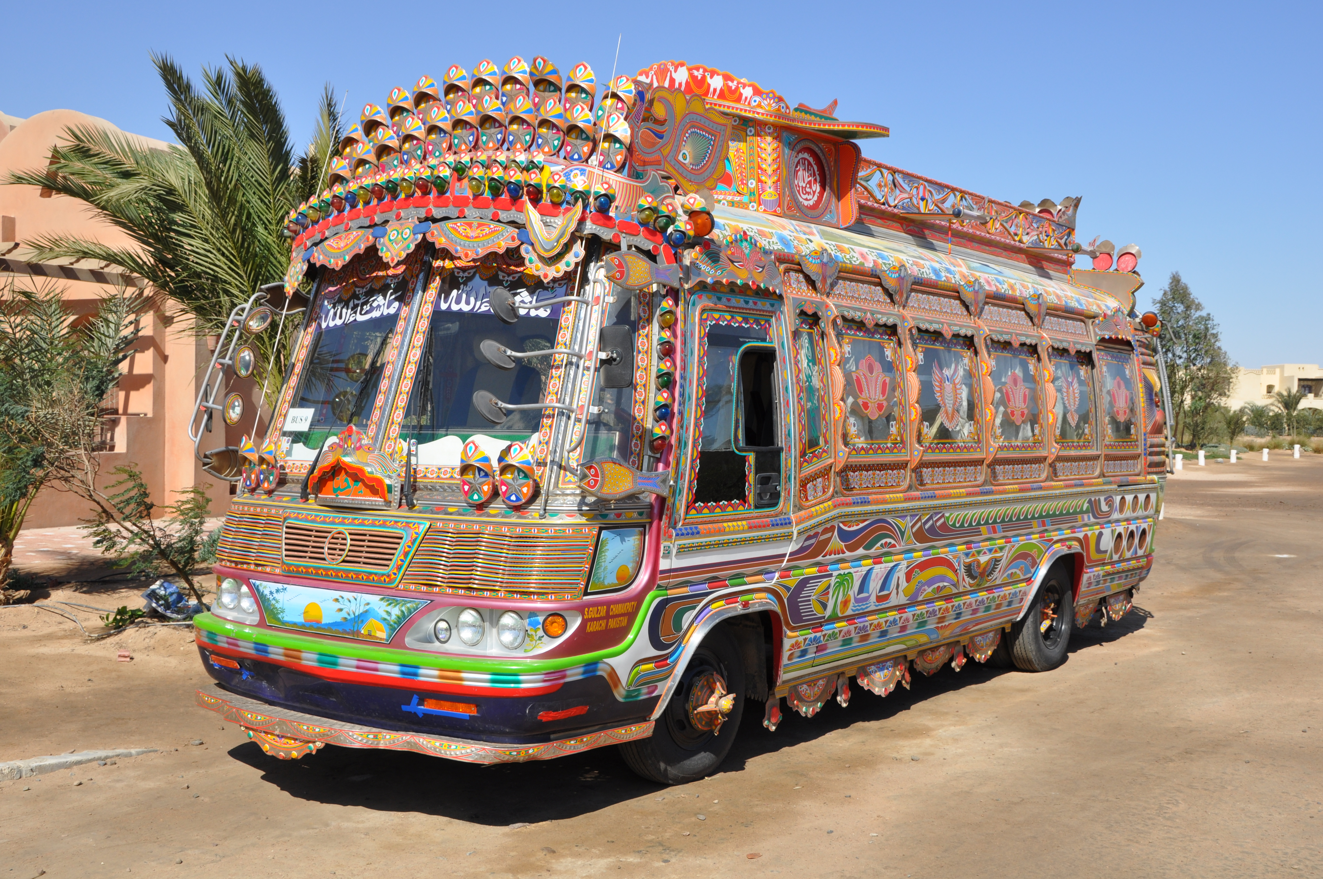 El Gouna (Red Sea, Egypt): public transport bus, customised and highly decorated in genuine Pakistani style. Coach built by Chishti Engineering (Karachi) and decorated by S. Gulzar (Karachi).